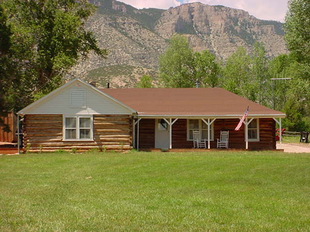 Ewing-Snell Ranch House at Bighorn Canyon National Recreation Area, Carbon County, Montana, USA